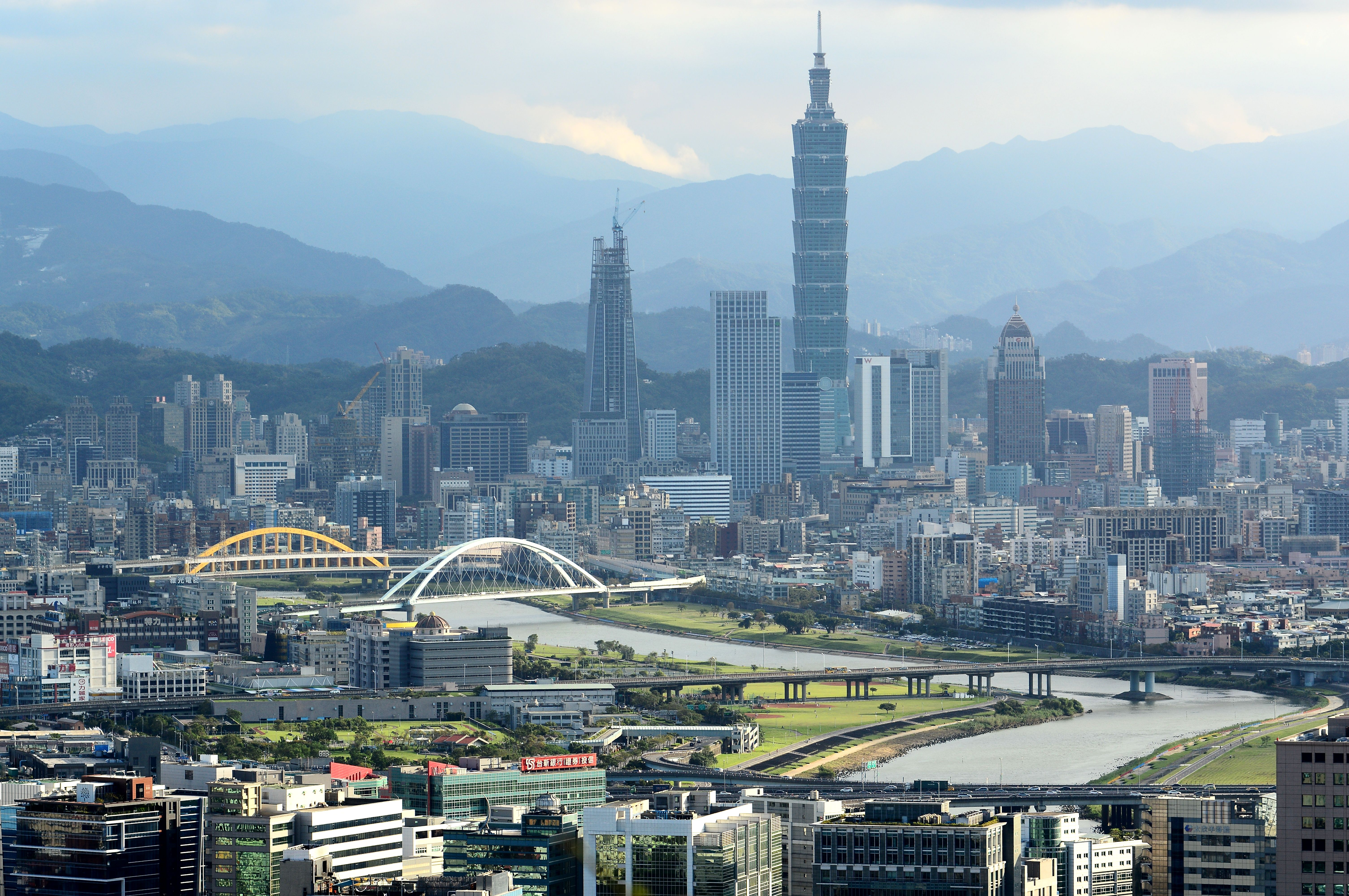 Taipei, Taiwan Skyline from Neihu, with a view of Minquan Bridge